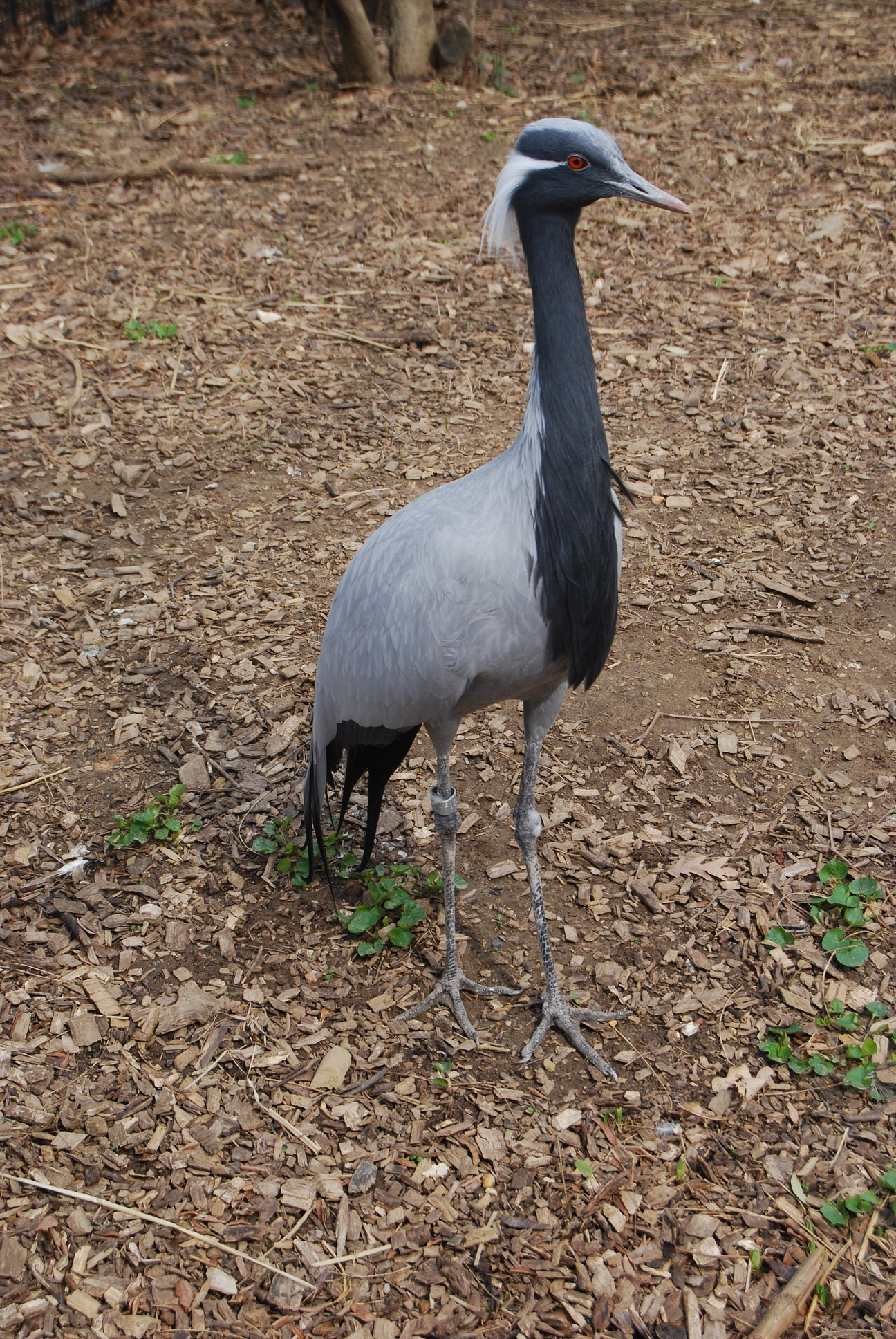 Demoisselle Crane at the Maryland Zoo in Baltimore